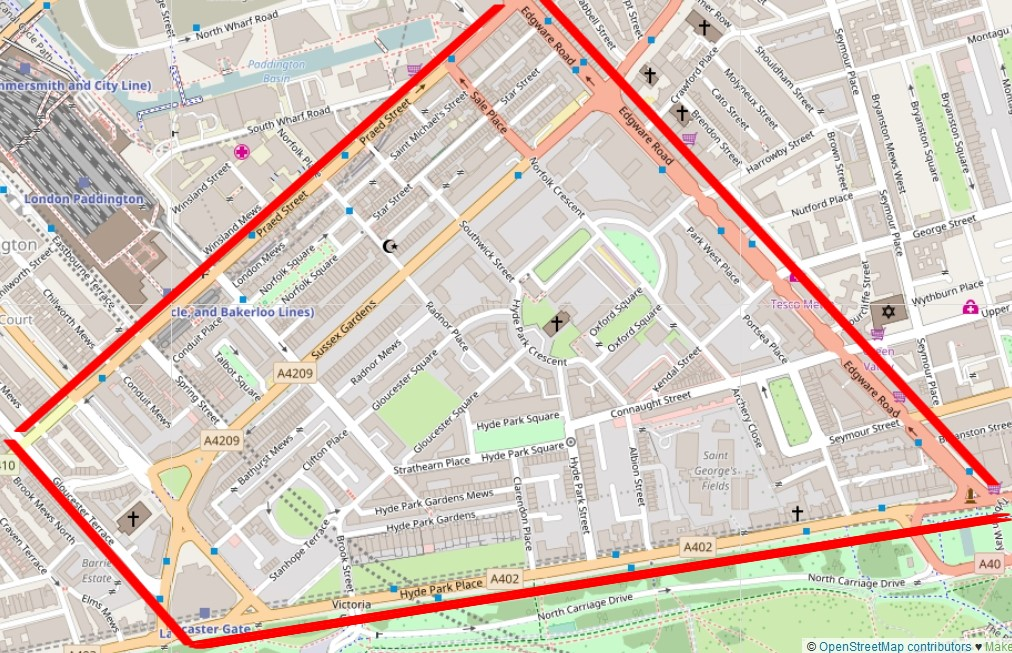 Tyburnia boundaries superimposed on modern map